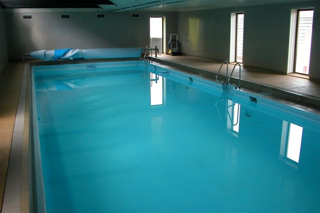 The swimmingpool, Hestur